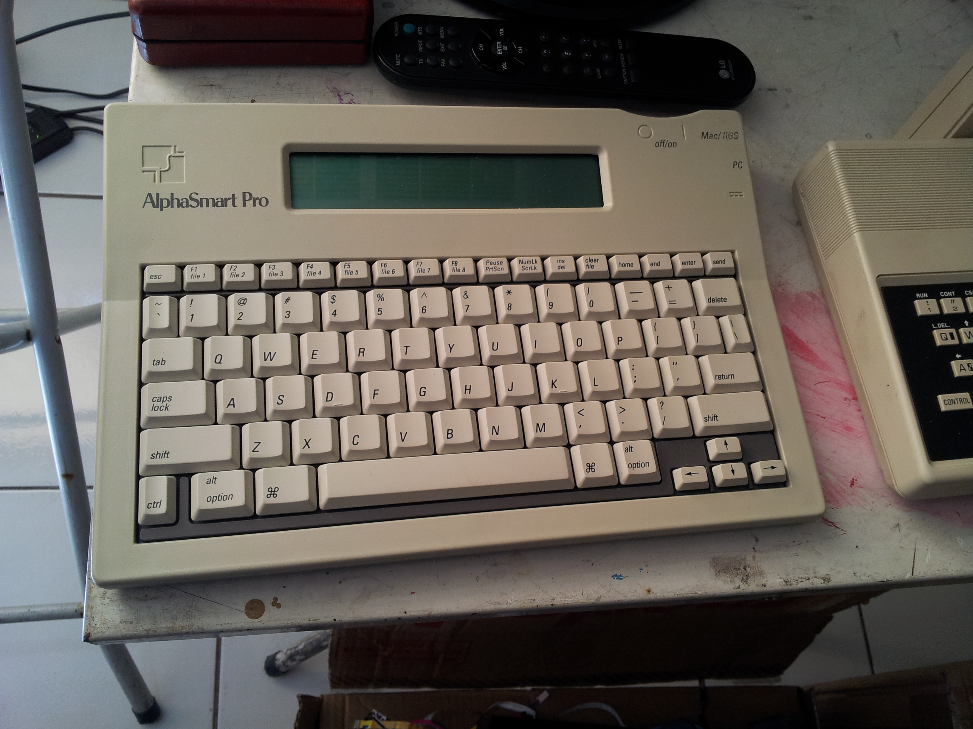 AlphaSmart Pro